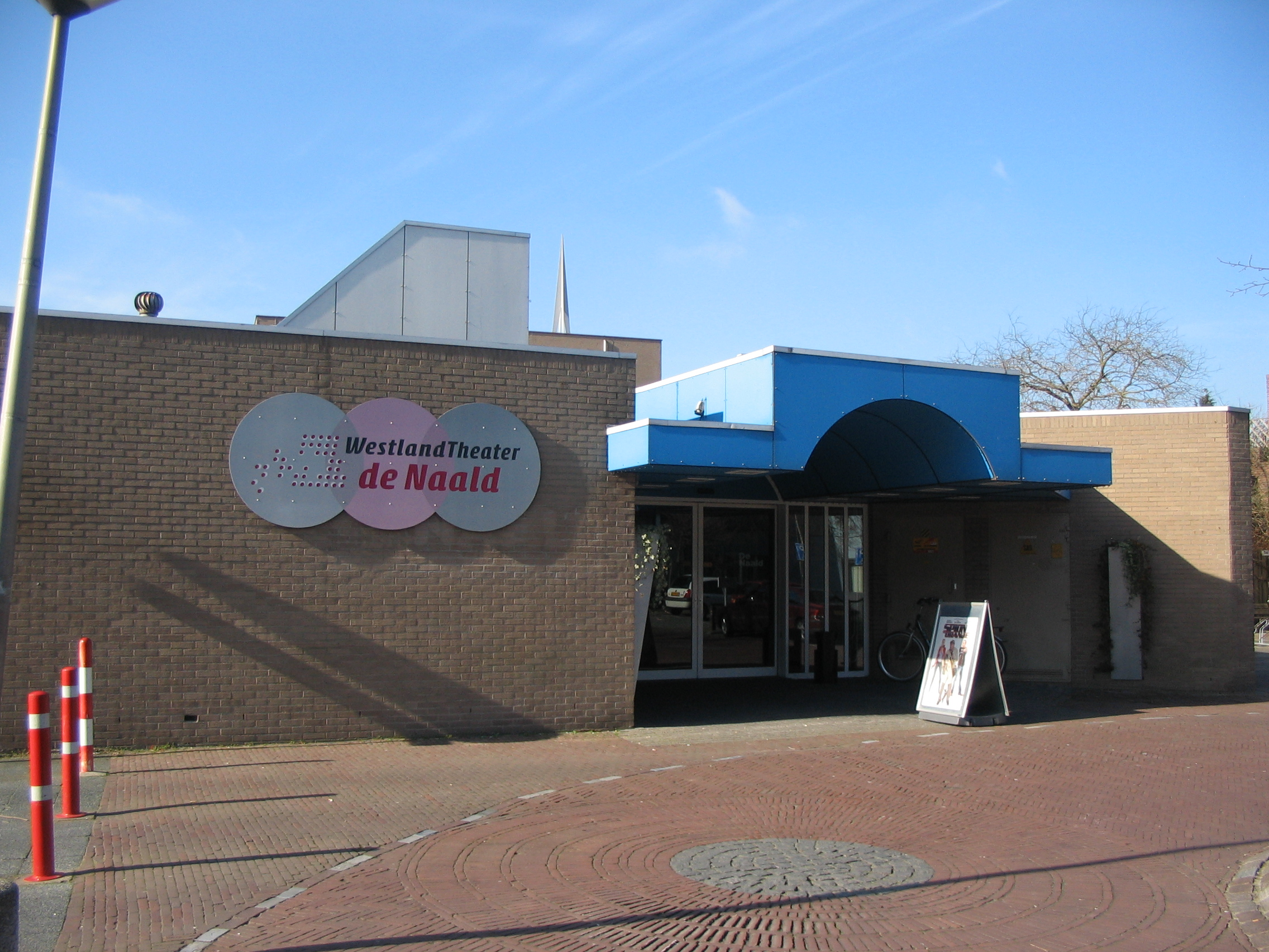 Westland theater, de Naald in the municipality Westland, the Netherlands